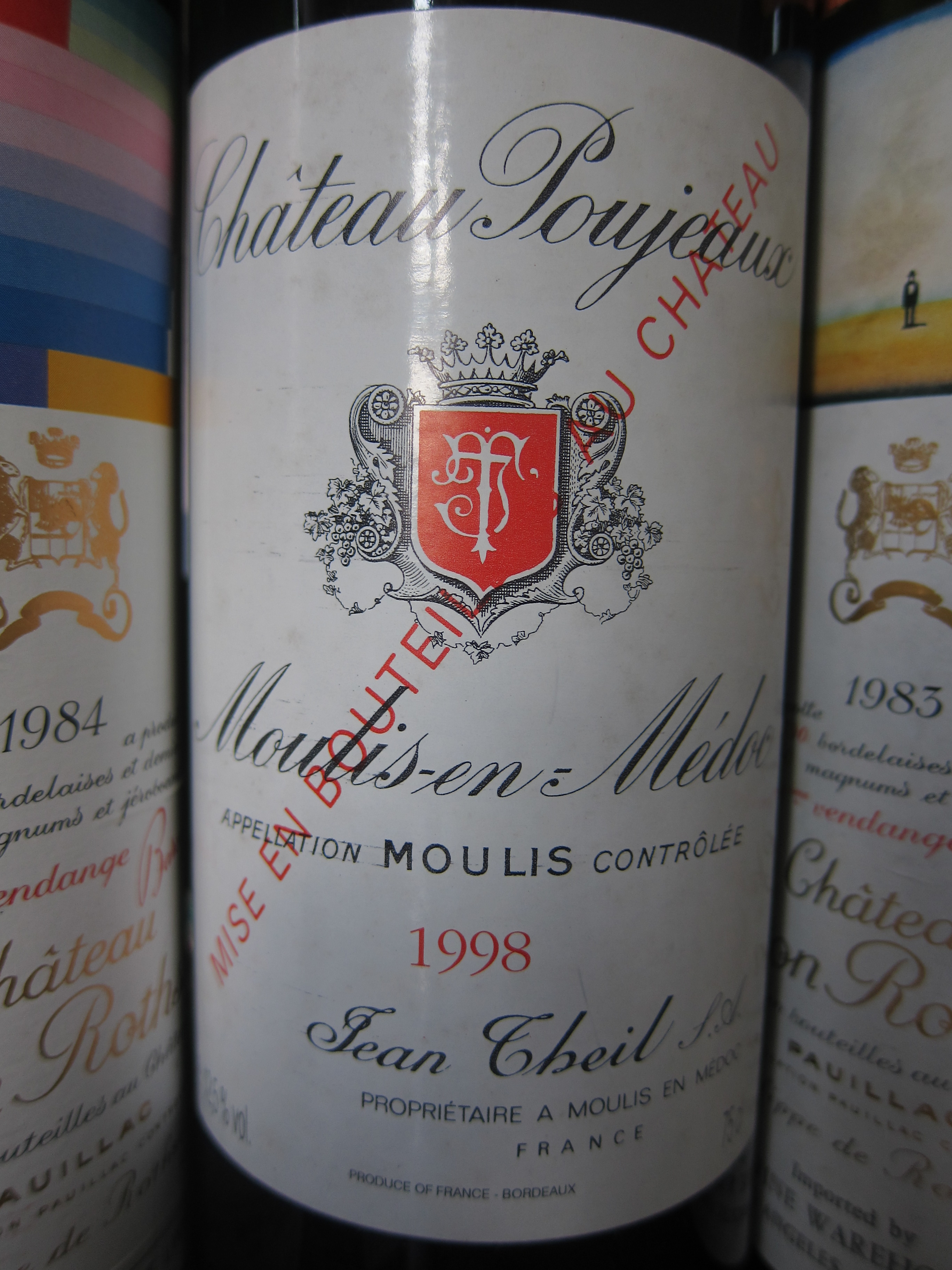 The wine label of a bottle of 1998 Château Poujeaux